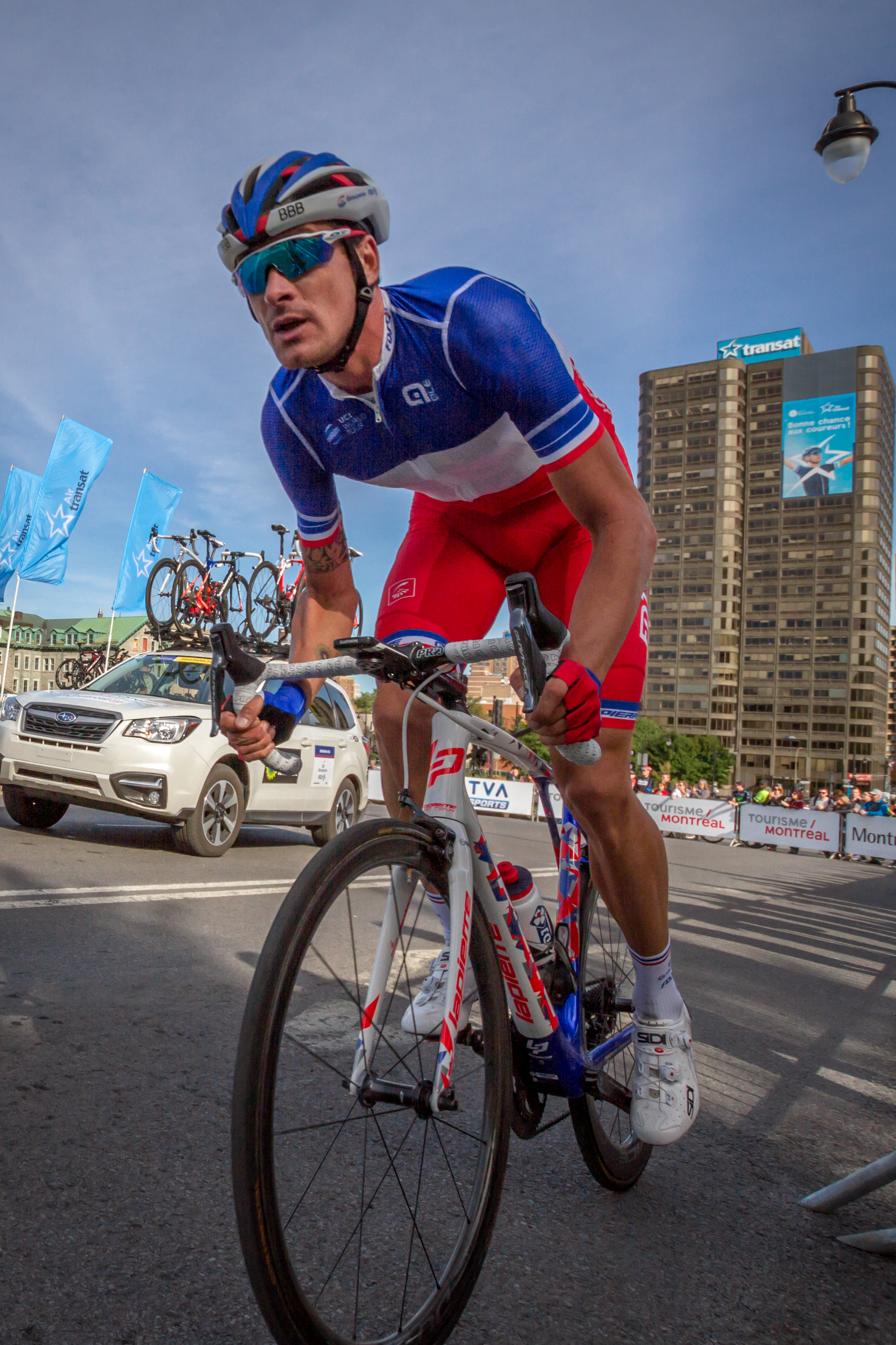 Anthony Roux (FRA) Groupama - FDJ. GPCQM - Grand Prix Cyclistes de Montreal et Quebec. Montreal 2018.